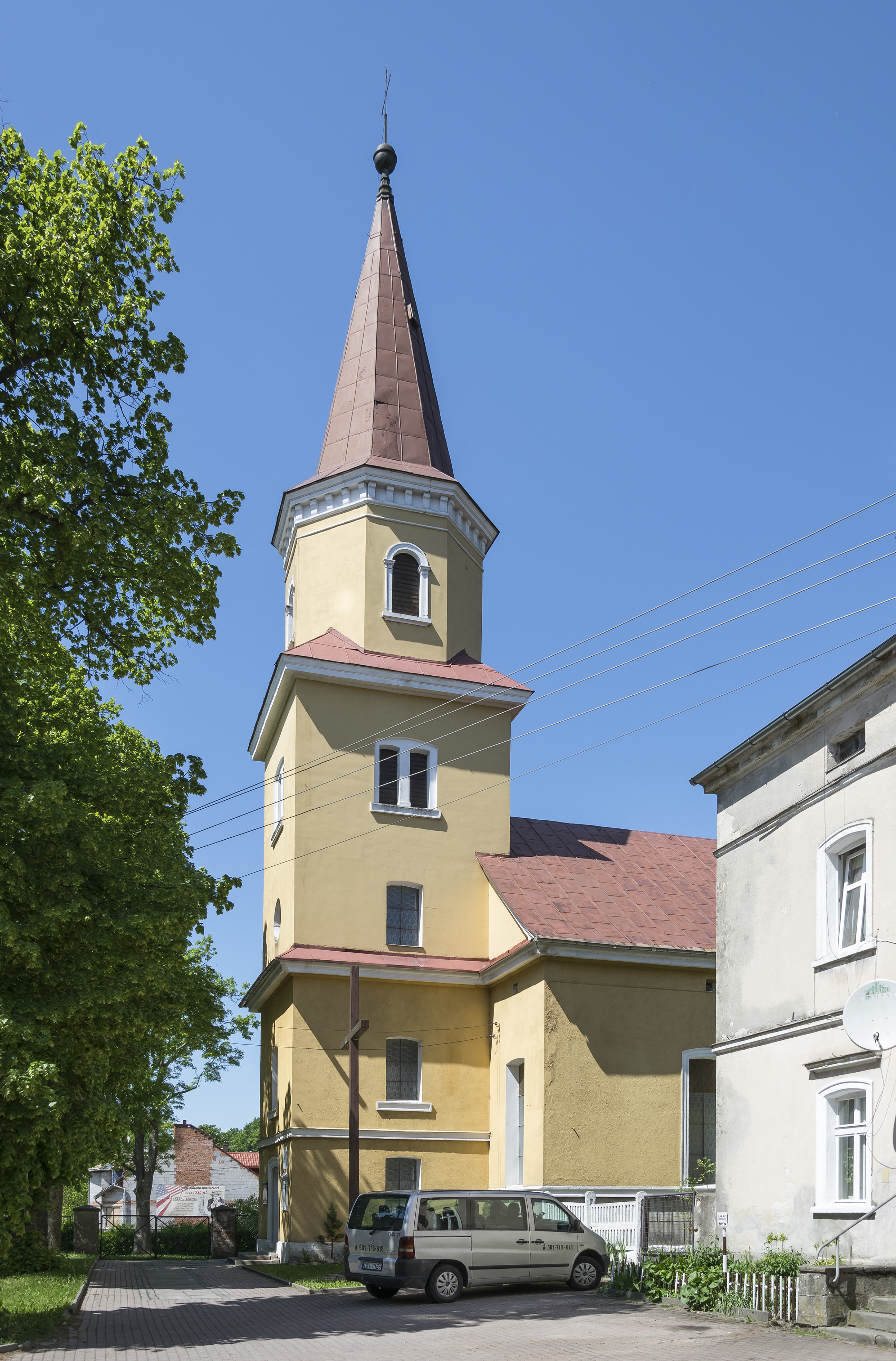 Polish Catholic Church in Duszniki-Zdrój